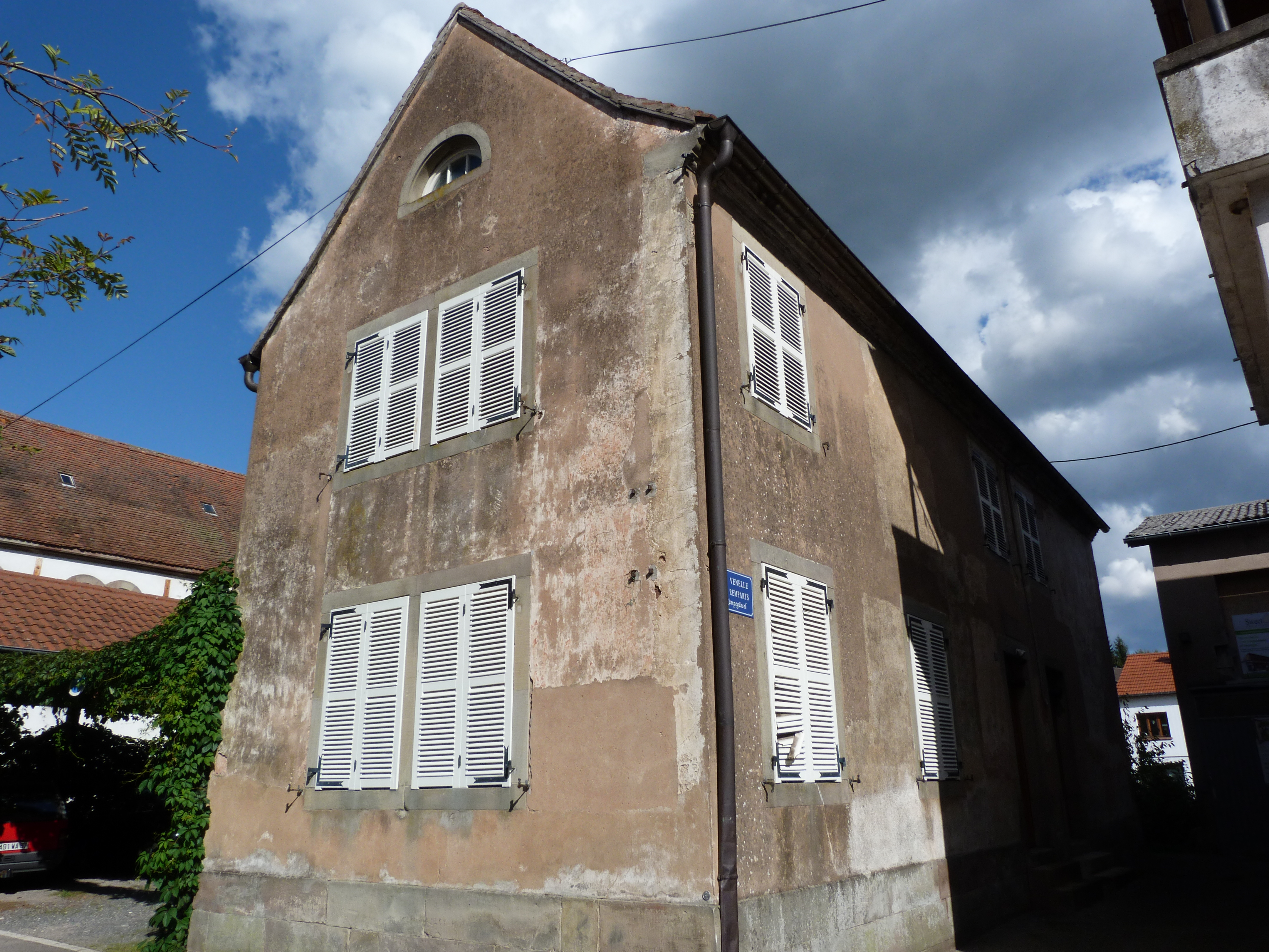 It is indexed in the Base Mérimée, a database of architectural heritage maintained by the French Ministry of Culture, under the references PA67000031 and IA67000707 .